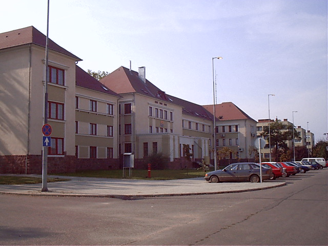 Hegyeshalom, one of the most important border station sof the Hungarian railway network